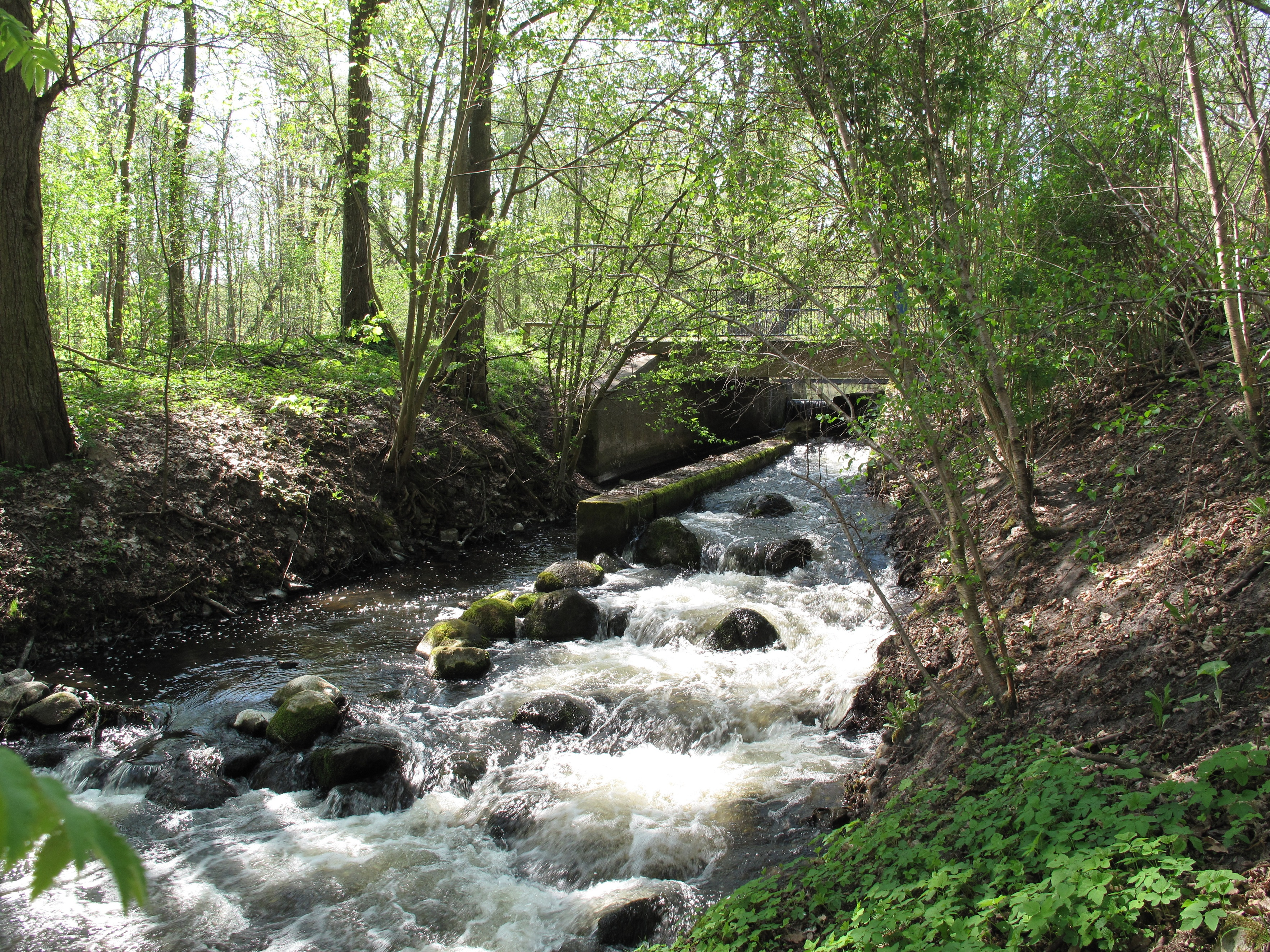 Fish ladder of the river Stobber (constructed in 1992) at the former Damm-Mühle (water mill) in Altfriedland, a village of the municipality Neuhardenberg. The Stobber (also called Stöbber) is the central river in the hill country „Märkische Schweiz“ and the Märkische Schweiz Nature Park, Brandenburg, Germany. The stream runs over a distance of 25 kilometers from the lowland moor and source area Rotes Luch towards the northeast through Buckow to the Oderbruch. The Stobber flows at Neuhardenberg to the „Friedländer Strom“, whose waters run over some canals to the Oder River → Baltic Sea. On a roughly 13 kilometer long route of its course there is designated the nature protection area „Naturschutzgebiet Stobbertal“.